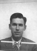 Robert F. Christy Los Alamos wartime security badge.